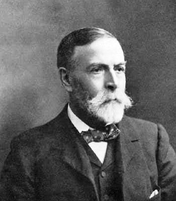 in 1900 Lord Doverdale was Edward Partington. Partington was born in Bury, England and arrived in Glossop in 1874. He, with his partner William Olive, bought the Turn Lee Mill from Thomas Hamer Ibbotson. He bought it to try out a modern method of paper manufacture using the sulphite process.